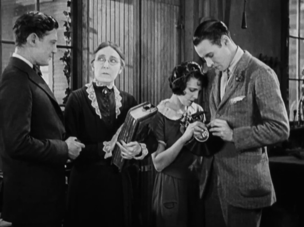 Screenshot from the silent film The Ten Commandments (1923).